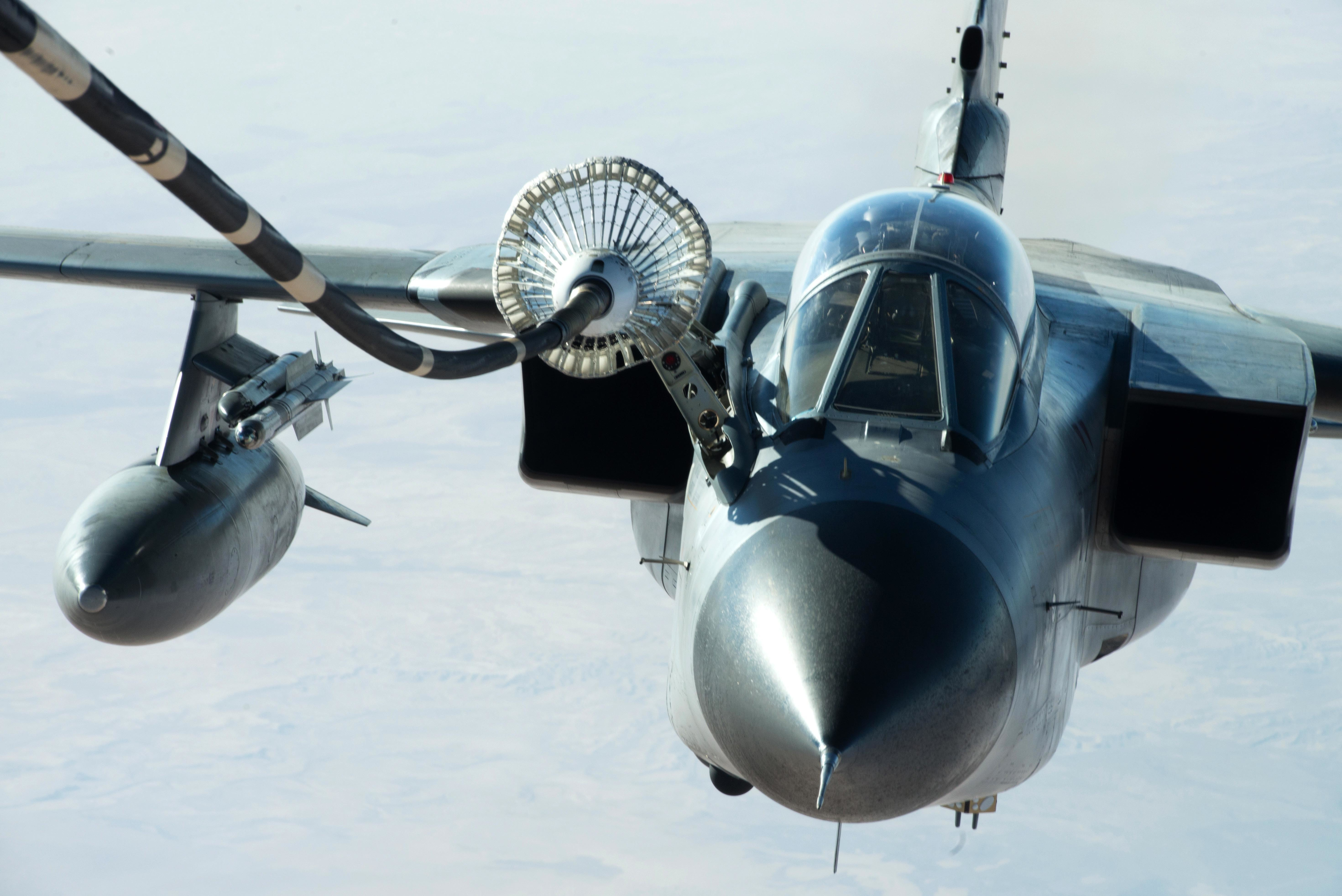 A German air force Tornado ECR refuels using a drogue-and-hose system from a U.S. Air Force KC-10 Extender near Mosul, Iraq, Nov. 20, 2016. Air Force refueling teams train to refuel aircraft from all nations both home and around the globe to embody the joint approach to warfare